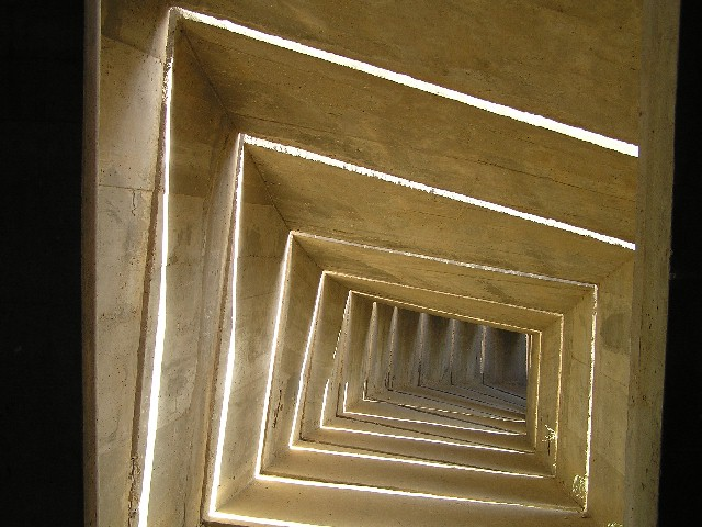 "Monument to the Negev Brigade" by Dani Karavan photographed by Eman, April 2006